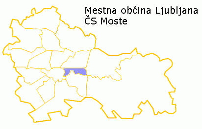 author: Navportus 18:37, 26 June 2007 (UTC) description: area of Moste quarter in Ljubljana